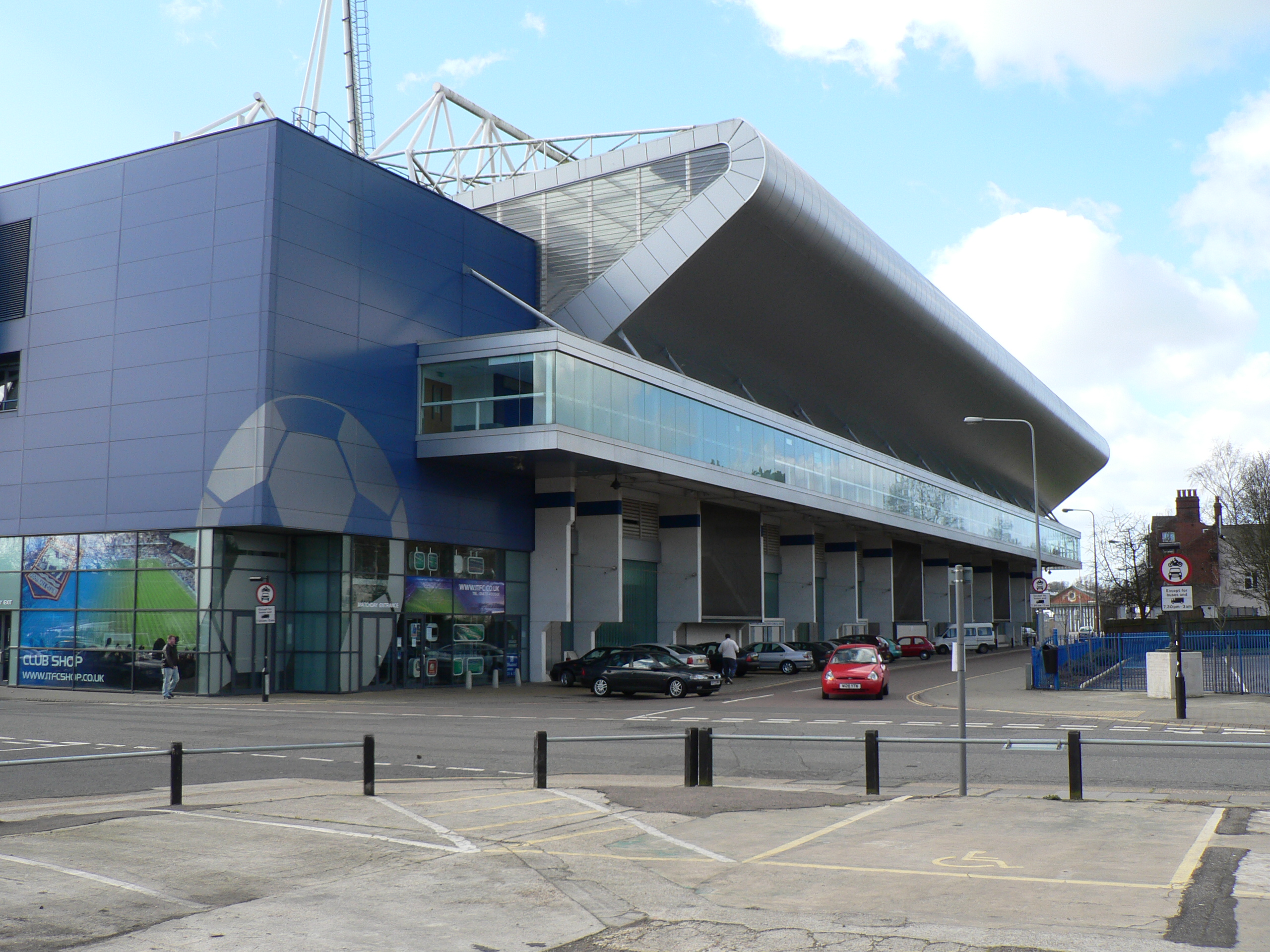 North Stand at Ipswich Town Football Club